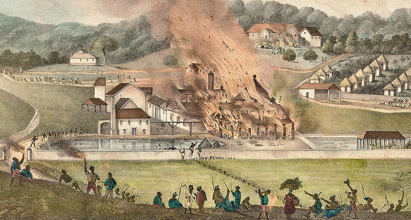 Picture of the burning of Roehampton Estate during the Baptist War